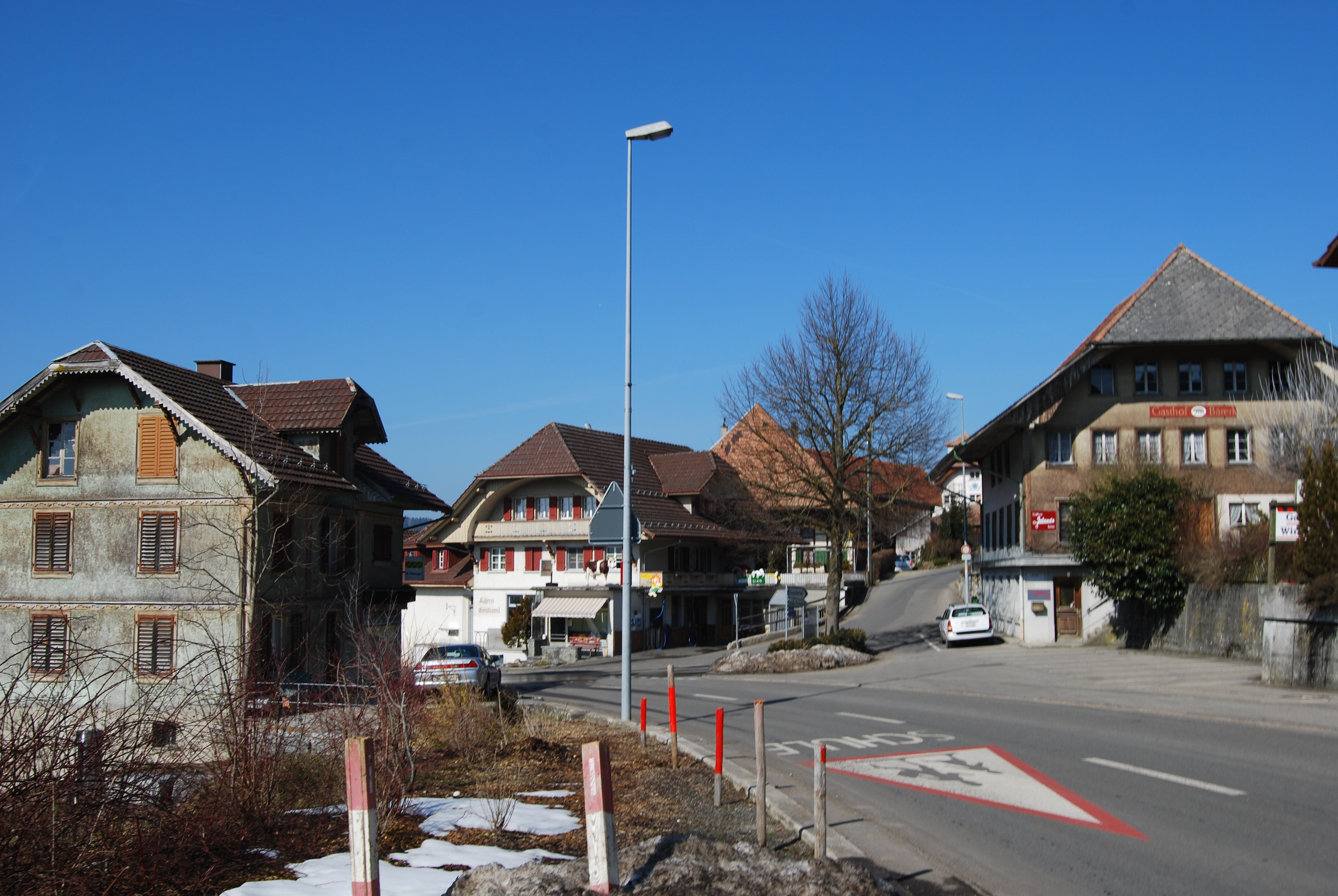 Gondiswil, canton of Bern, SwitzerlandEsperanto: Gondiswil, Kantono Berno, Svislando